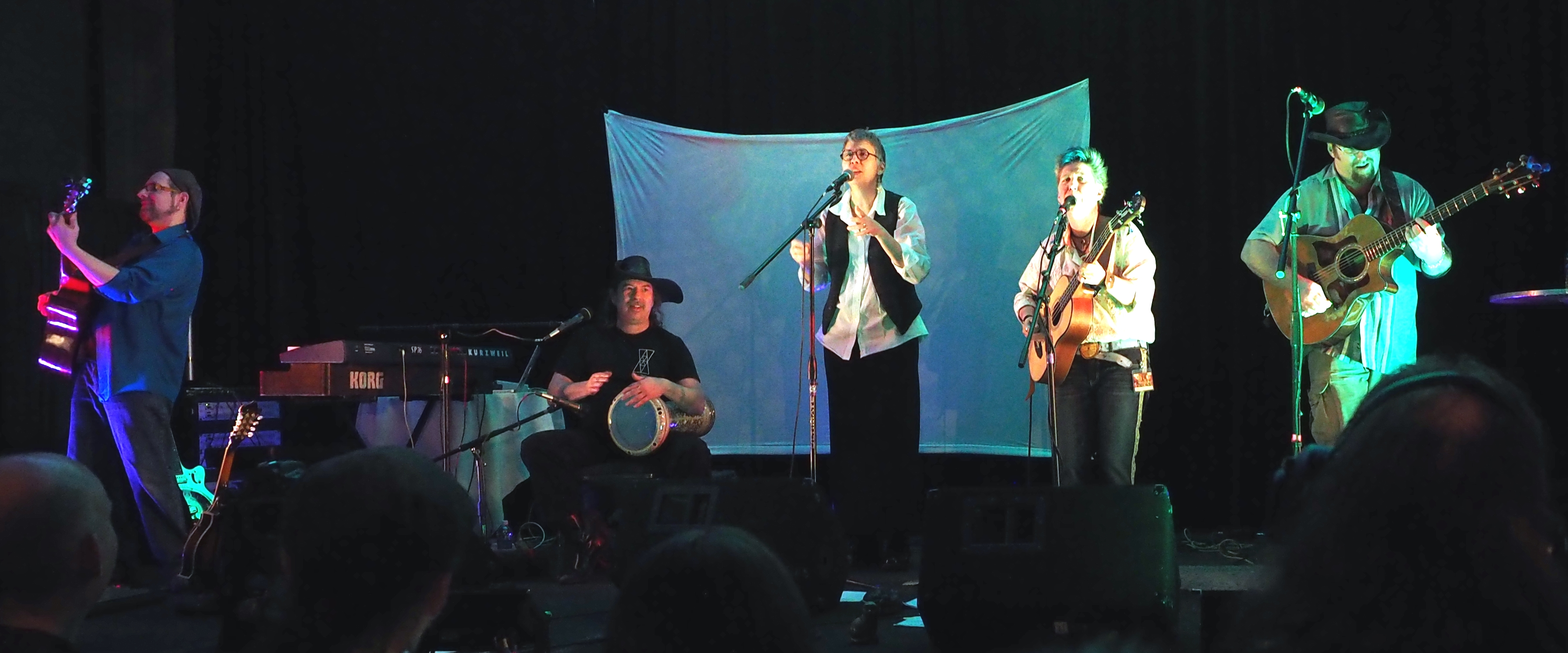 Cats Laughing reunion performance at Minicon 50, Bloomington, Minnesota. Left to right: Scott Keever, Steven Brust, Emma Bull, Lojo Russo, Adam Stemple.